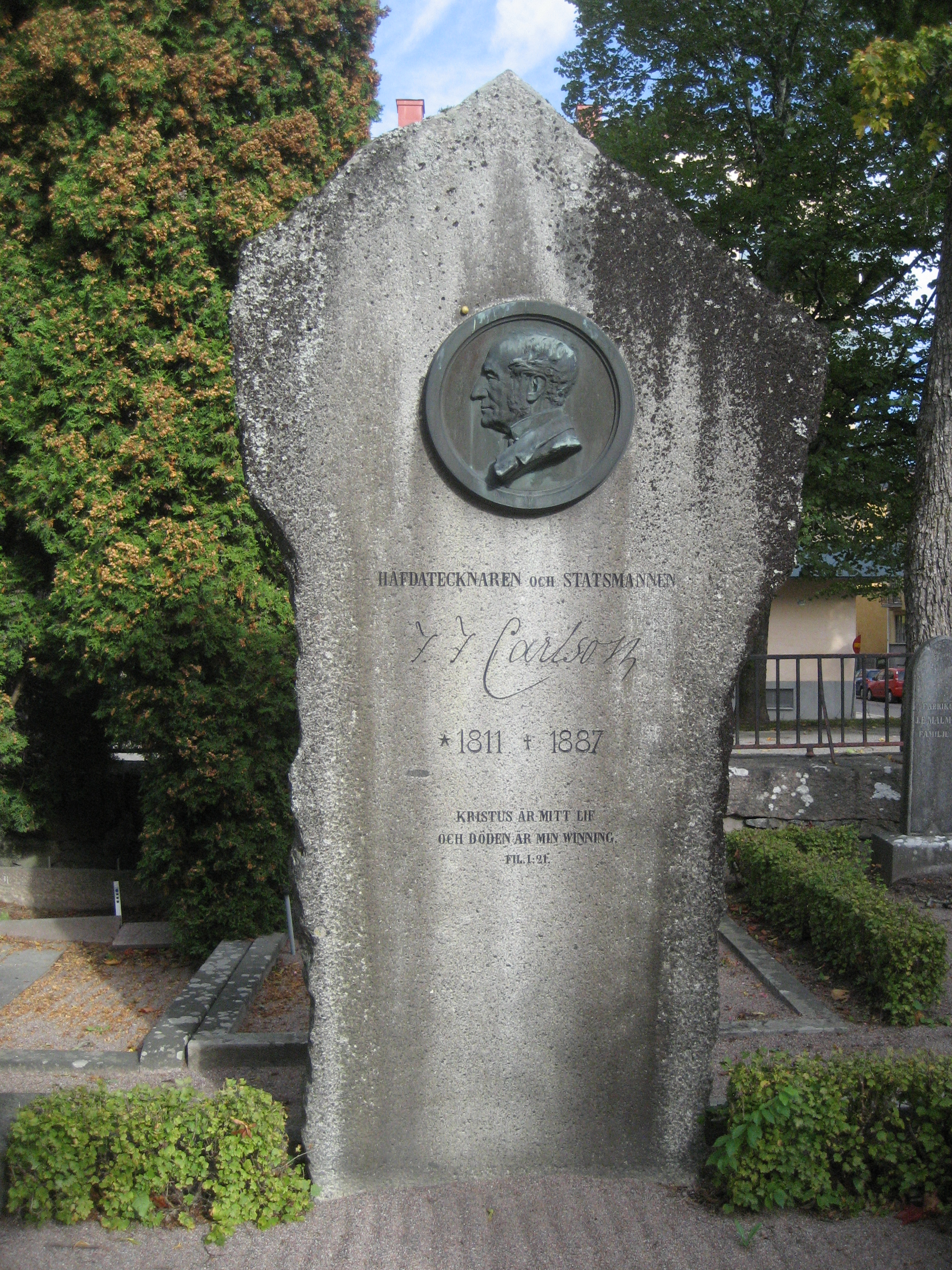 Fredrik Ferdinand Carlson (1811-1887), Uppsala Cemetery (Sweden)